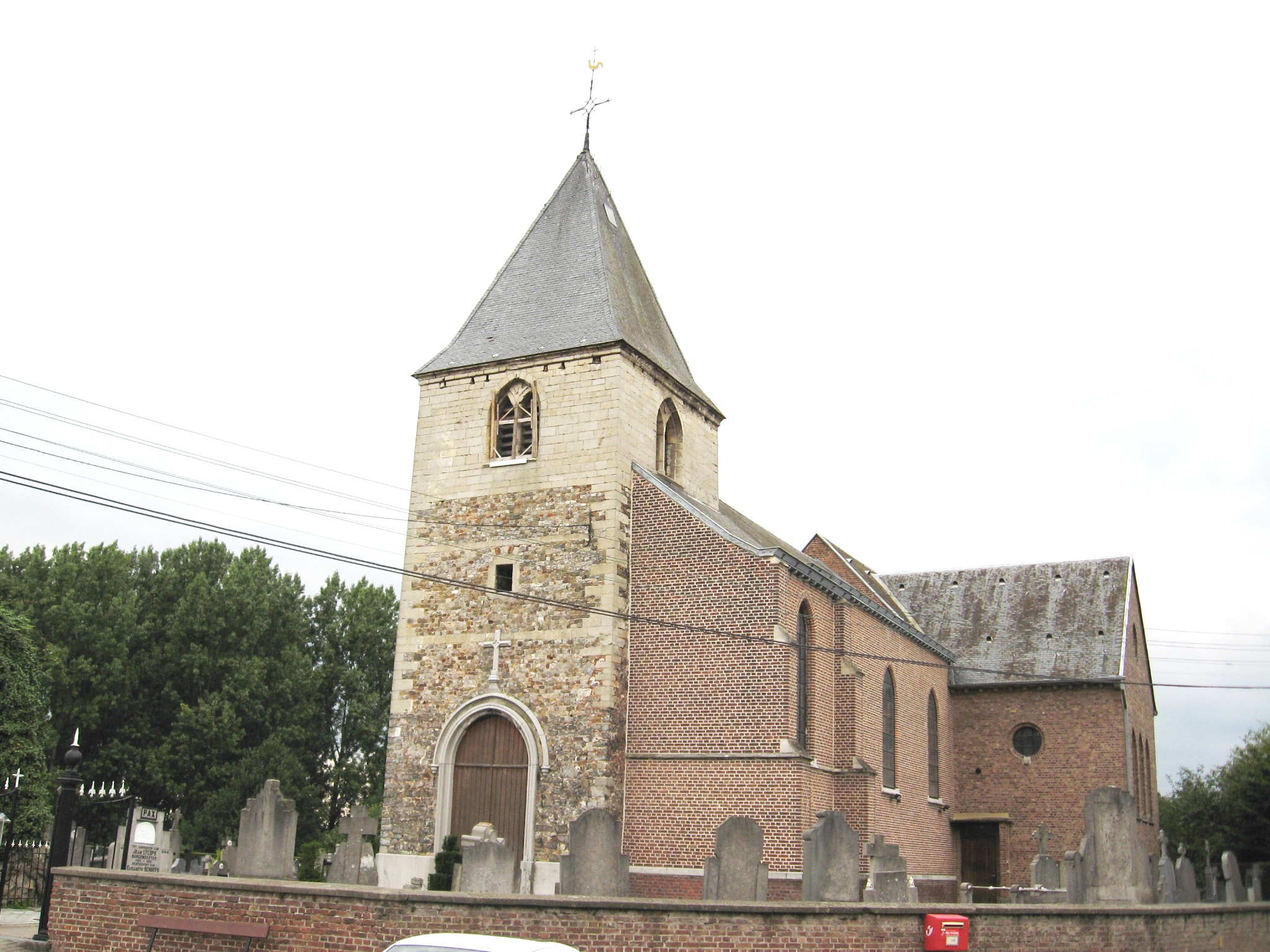 Church of Saint Gertrude in Riksingen, Tongeren, Limburg, Belgium